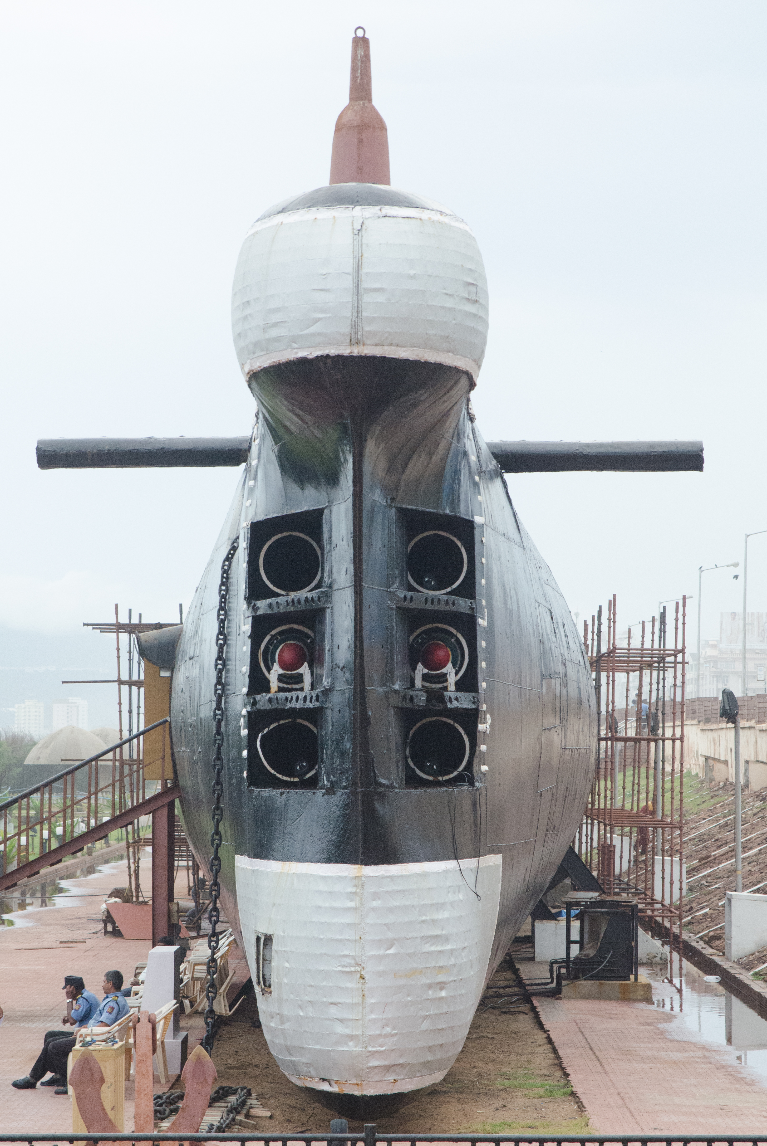 The torpedo tubes of INS Kursura (S20), a Kalvari class submarine of the Indian Navy. She is currently a museum at Visakhapatnam, India